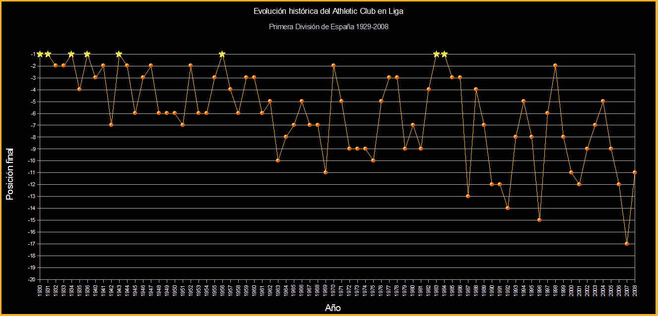 Athletic Club trayectory's in the league (1929-2008)